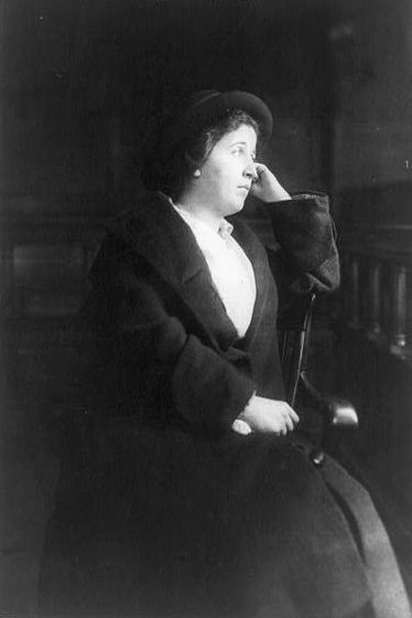 Elizabeth Gurley Flynn (1890-1964)